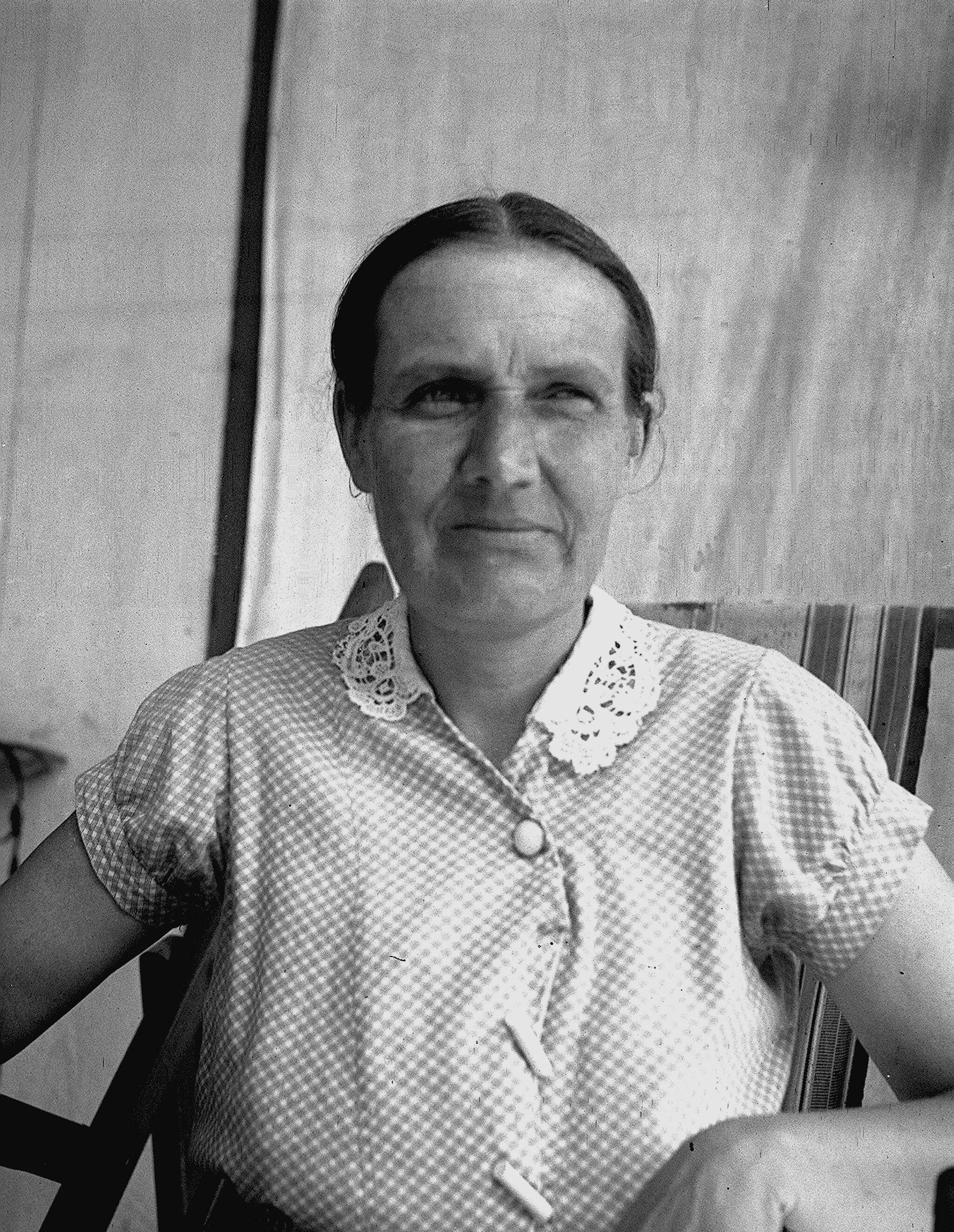 Elisheva Bichovsky in Israel - 1936